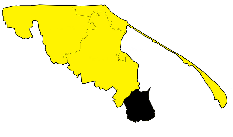 administrative division of pucki (Puck) poviatship - gminas - Kosakowo gmina Author: Krzysztof Created with Inkscape